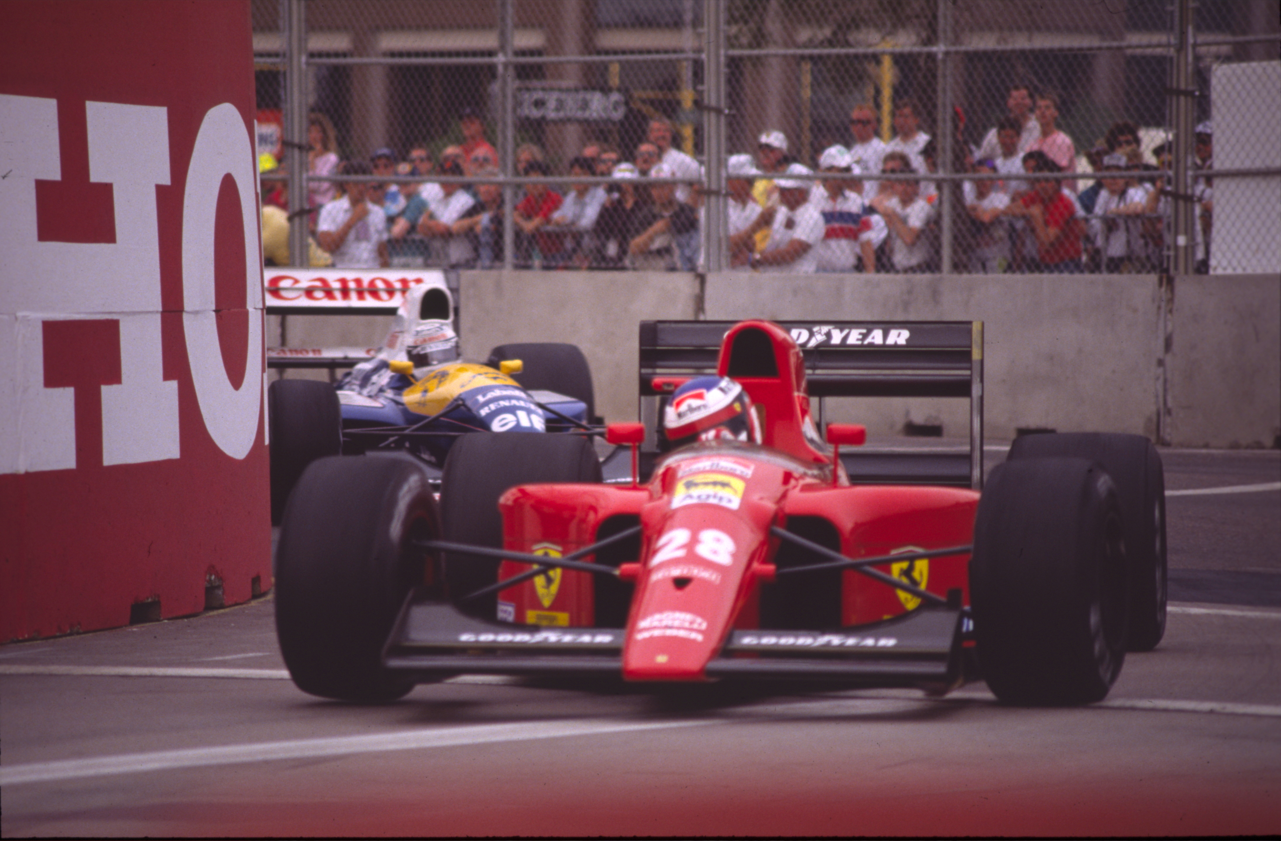 Jean Alesi chased by Riccardo Patrese at the 1991 United States Grand Prix.